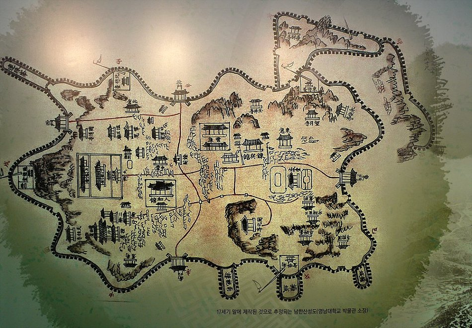 The ancient map of Namhansanseong, made 17C, by unknown artist.